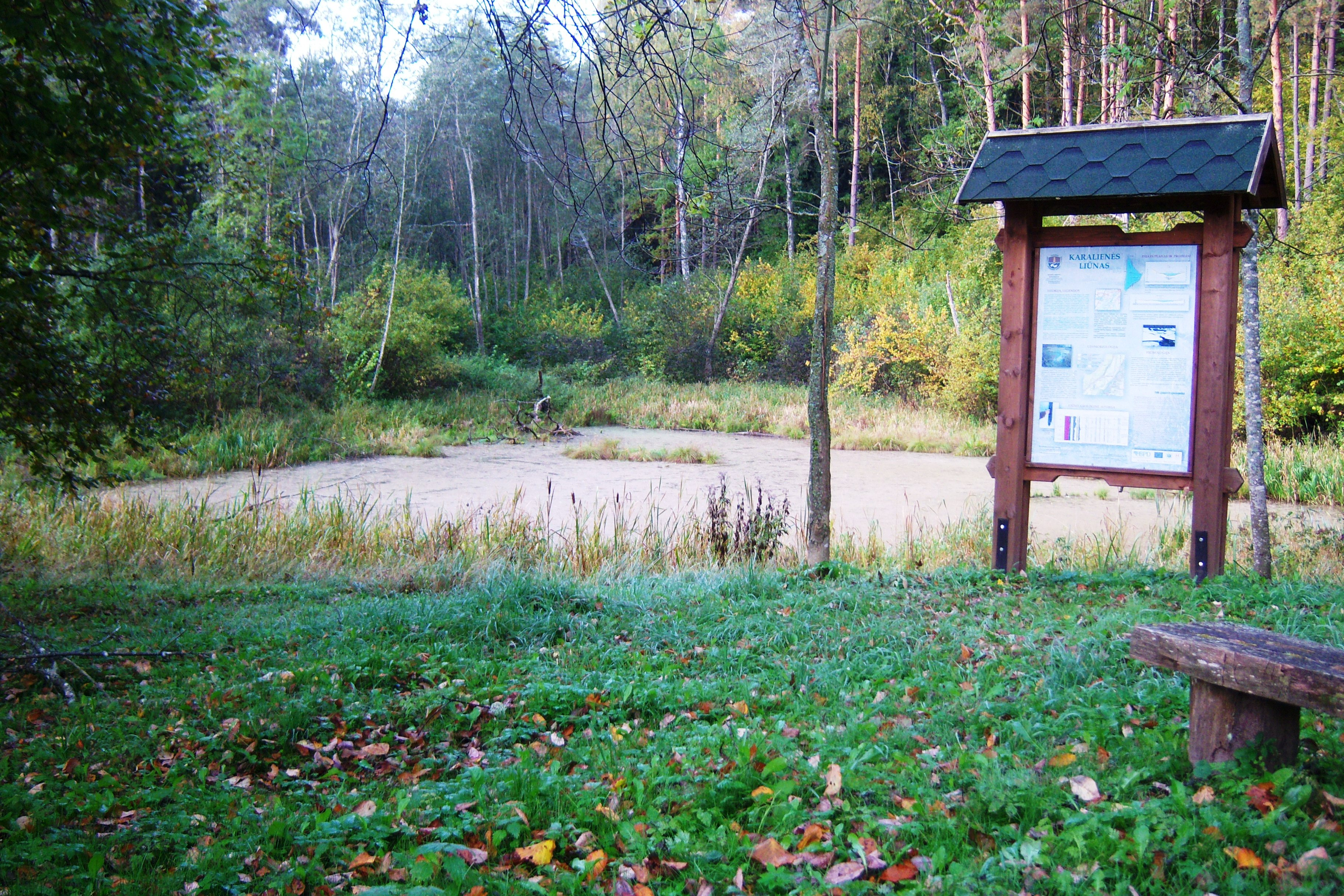 By the Queen's Quagmire, an oxbow of the Šventoji River